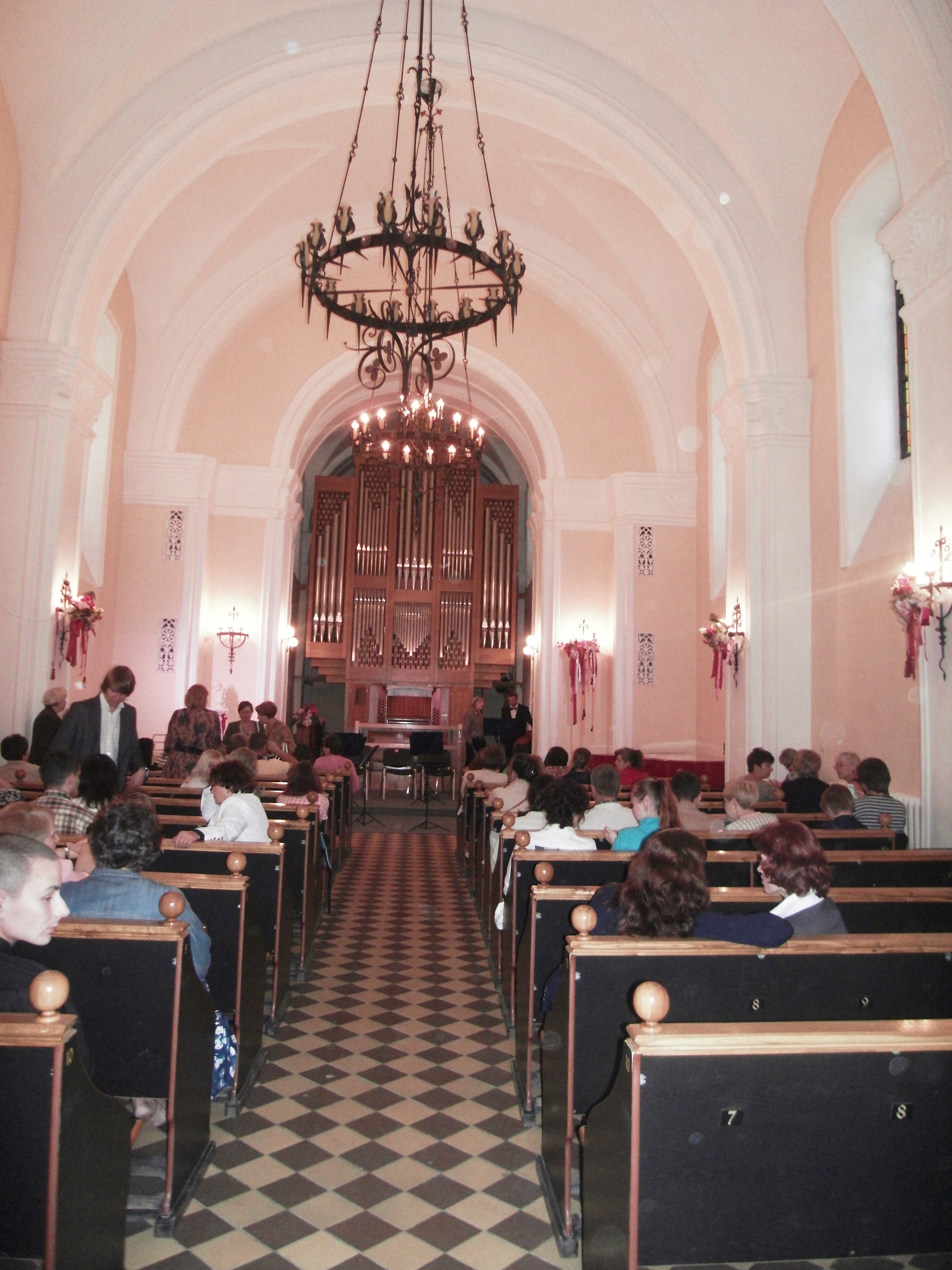 The interior of the church of the Sacred-Heart-of-Jesus. The catholic church of Kirov, Russia